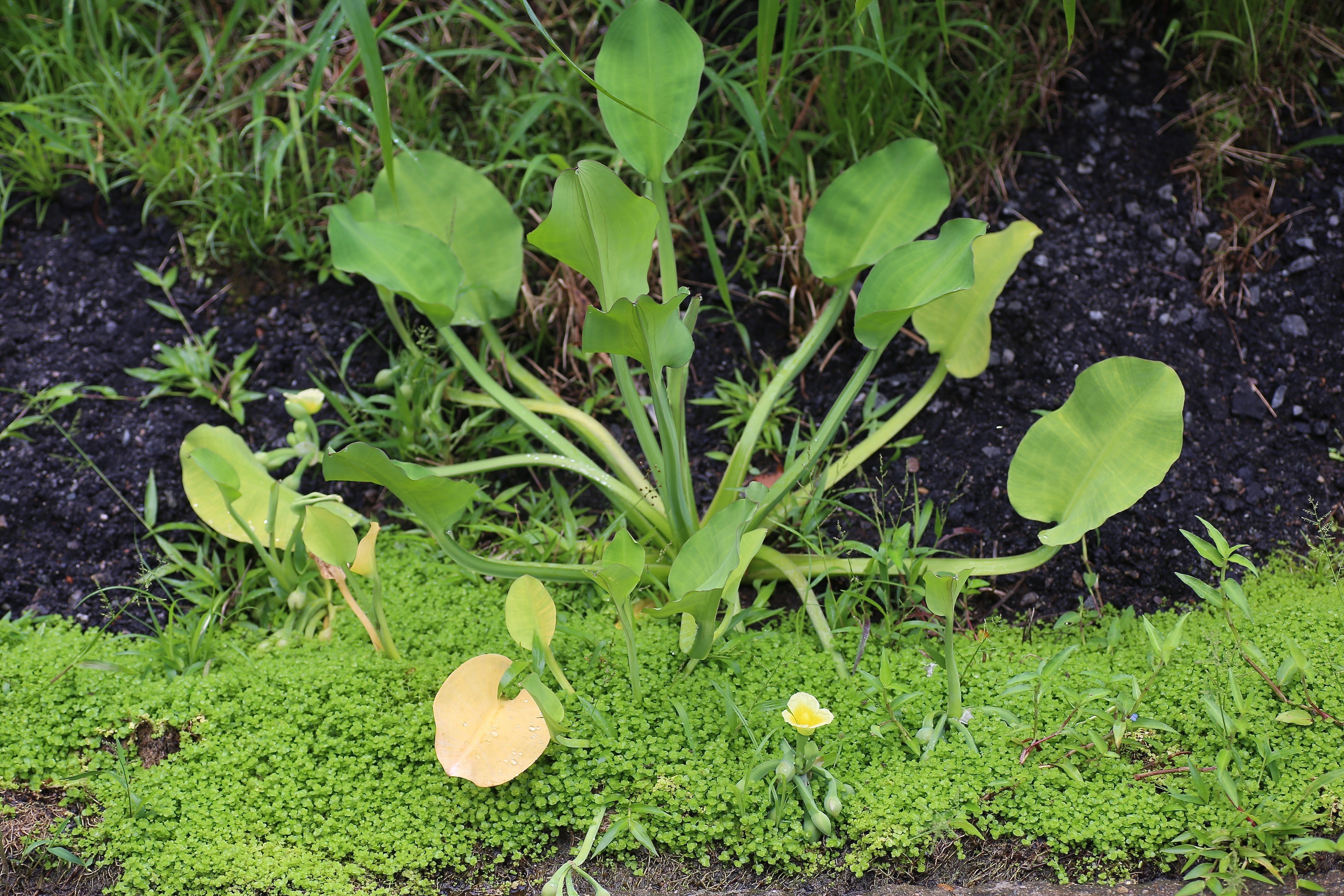 Ecuador, Misahualli area, close to Tena river. Traditionally this plant is an important vegetable in parts of Indonesia, Philippines, Vietnam,Laos, Thailand and parts of India, where the central flower stalk and the leaves are used in soups, curries, salads and stir-fries. The immature flower buds are also eaten.